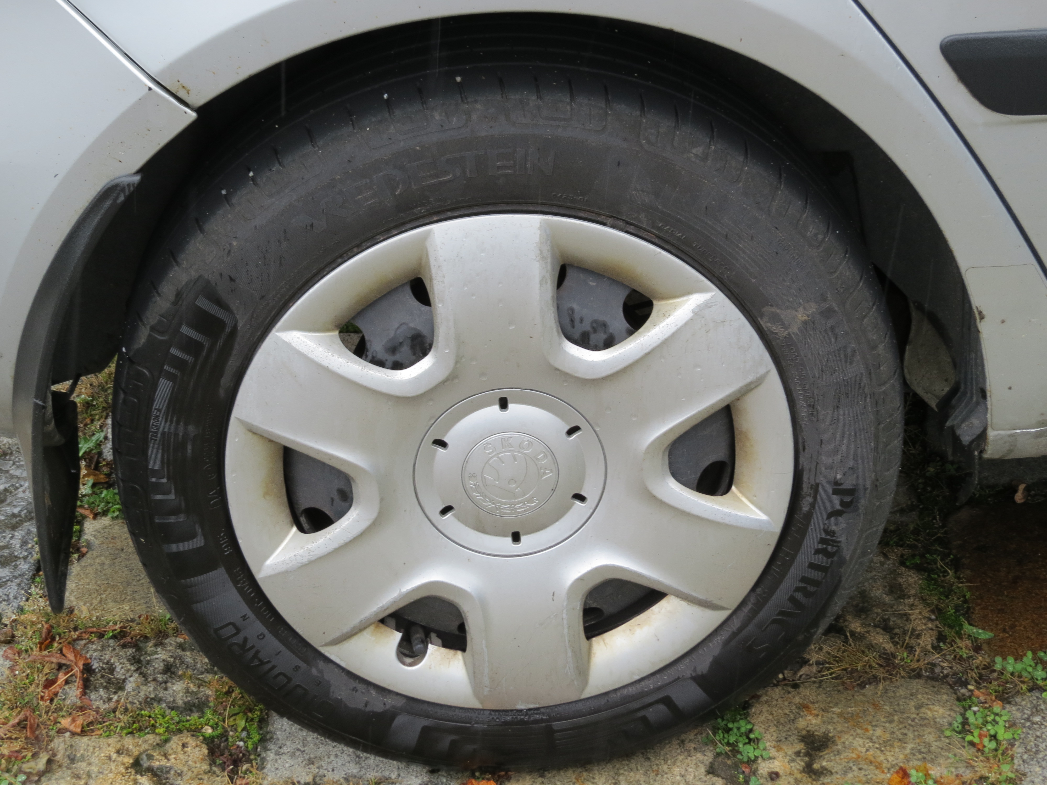 Vredestein Sportrac 5 195/55 R 15 tire at Bahnhof Melk